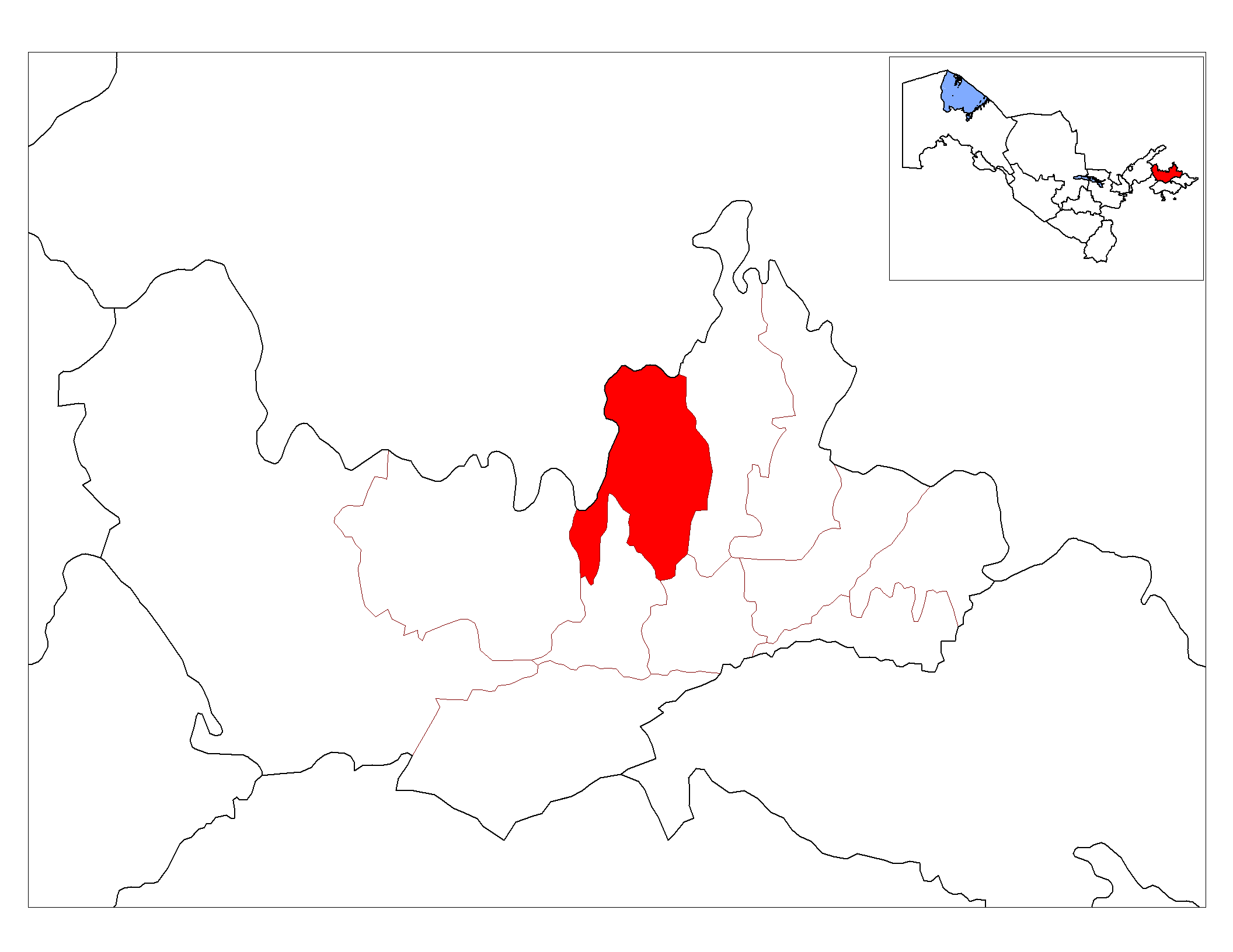 Location map of Kosonsoy District in Namangan Province